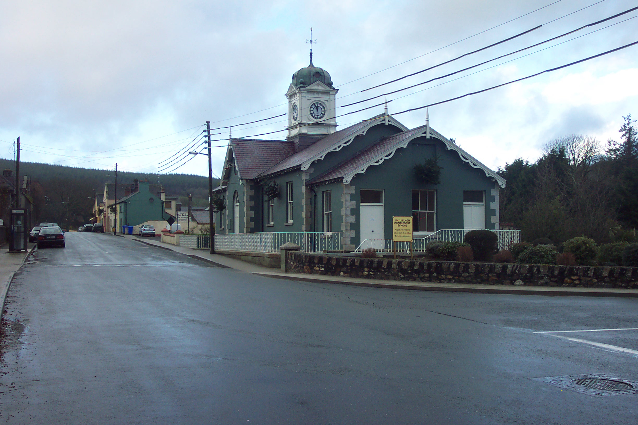 Main Street - Shillelagh